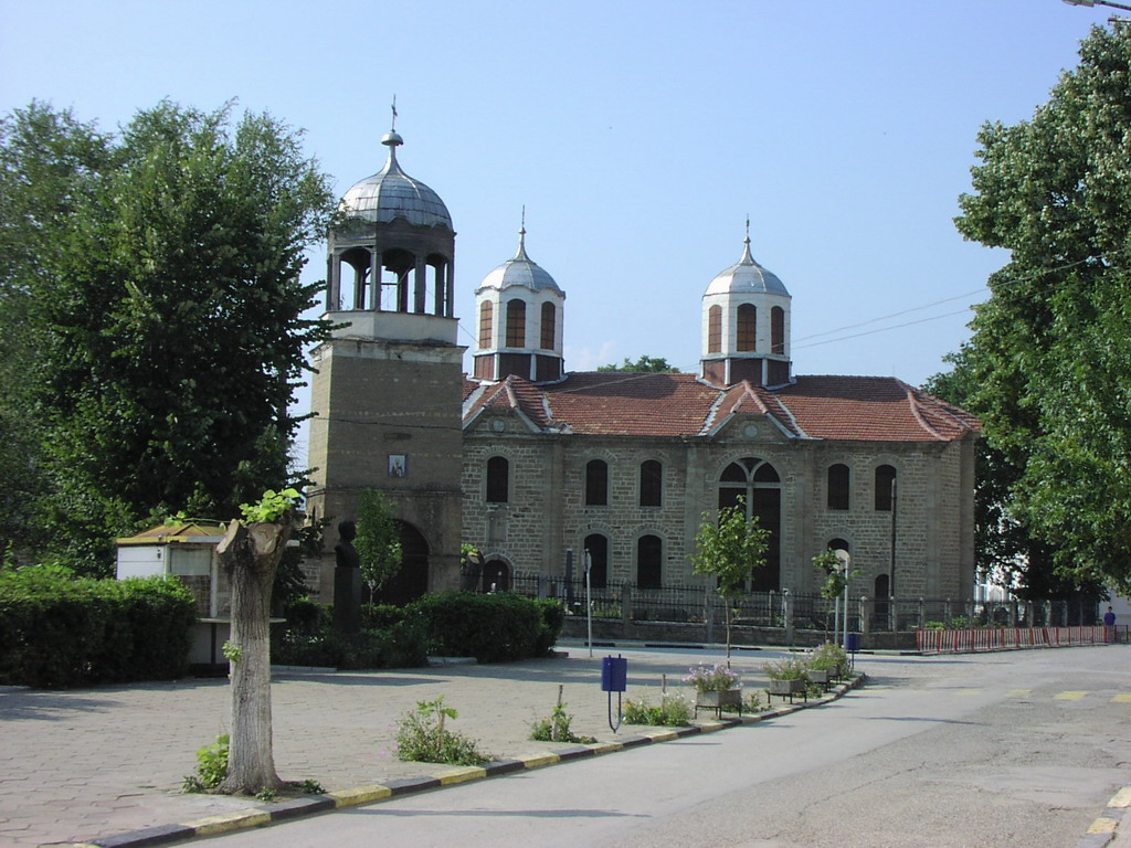 Zlataritza, Veliko Tarnovo, Bulgaria - the church "St. Nikolay".